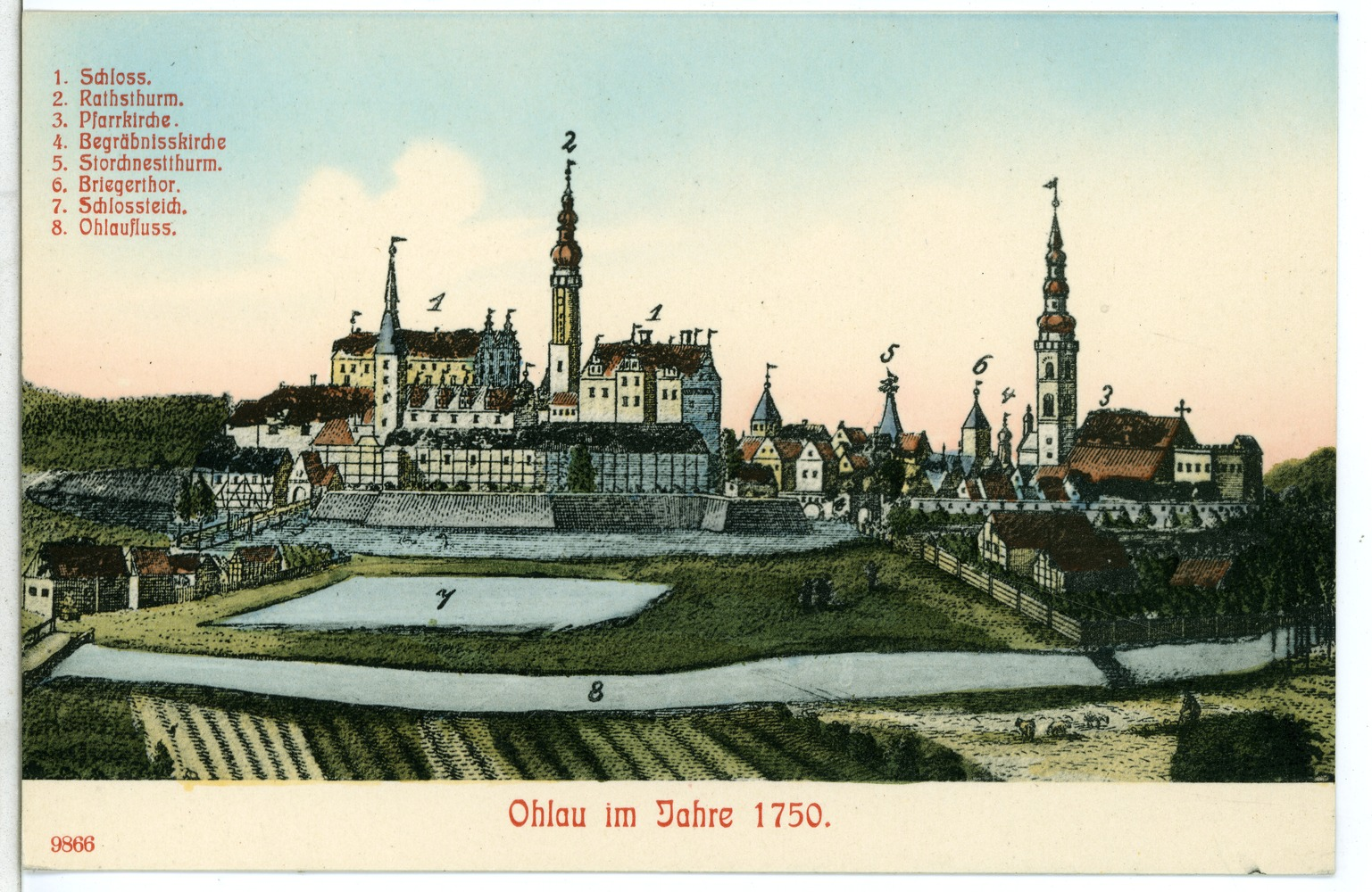 This postcard is from publisher Brück & Sohn in Meißen ( This postcard has a unique number 09866 and is available in a higher resolution at the publisher. This images was uploaded in a cooperation project between Wikipedians and the publisher.